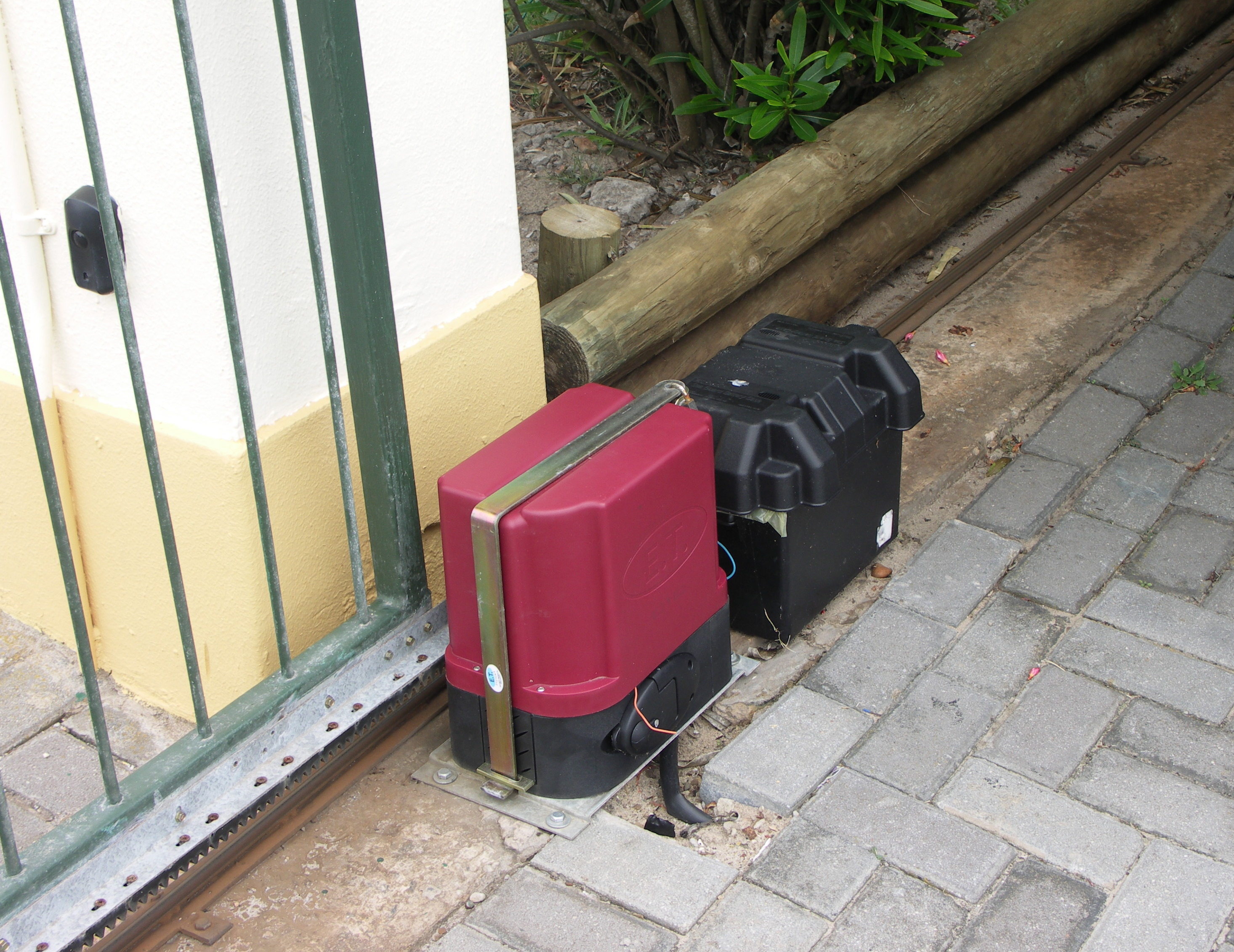 A sliding gate showing electric motor, backup battery in case of mains failure, track, gear and infra-red obsticle sensor